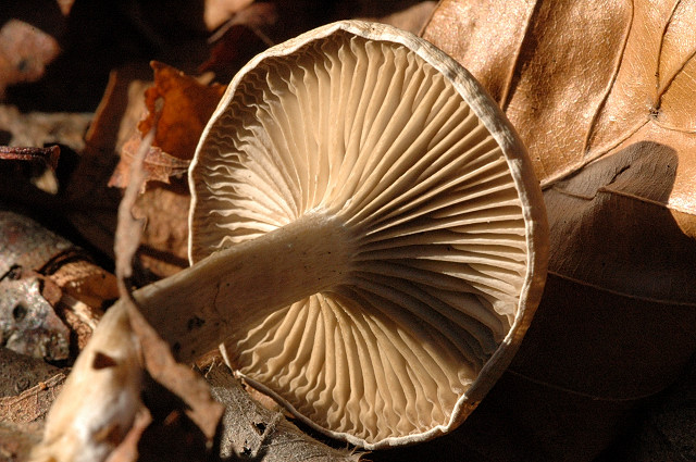 Entoloma undatum from Commanster, Belgium. If you think this is a different taxon, please contact James Lindsey.